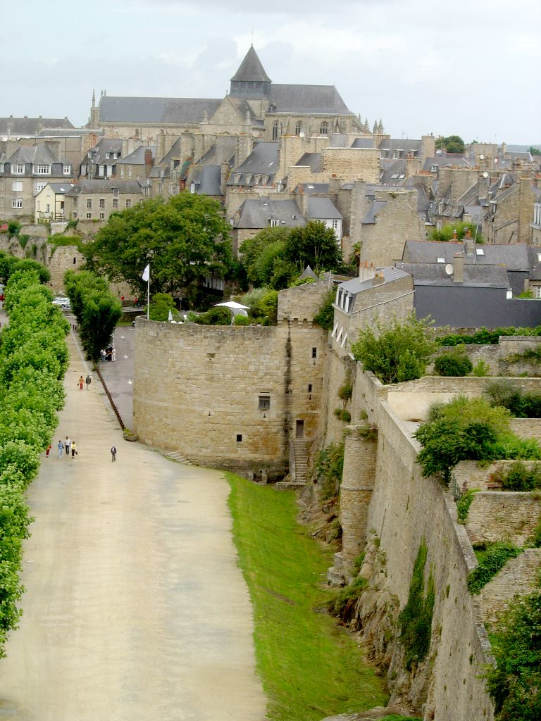 Dinan and his defensive walls, seen from the dungeon